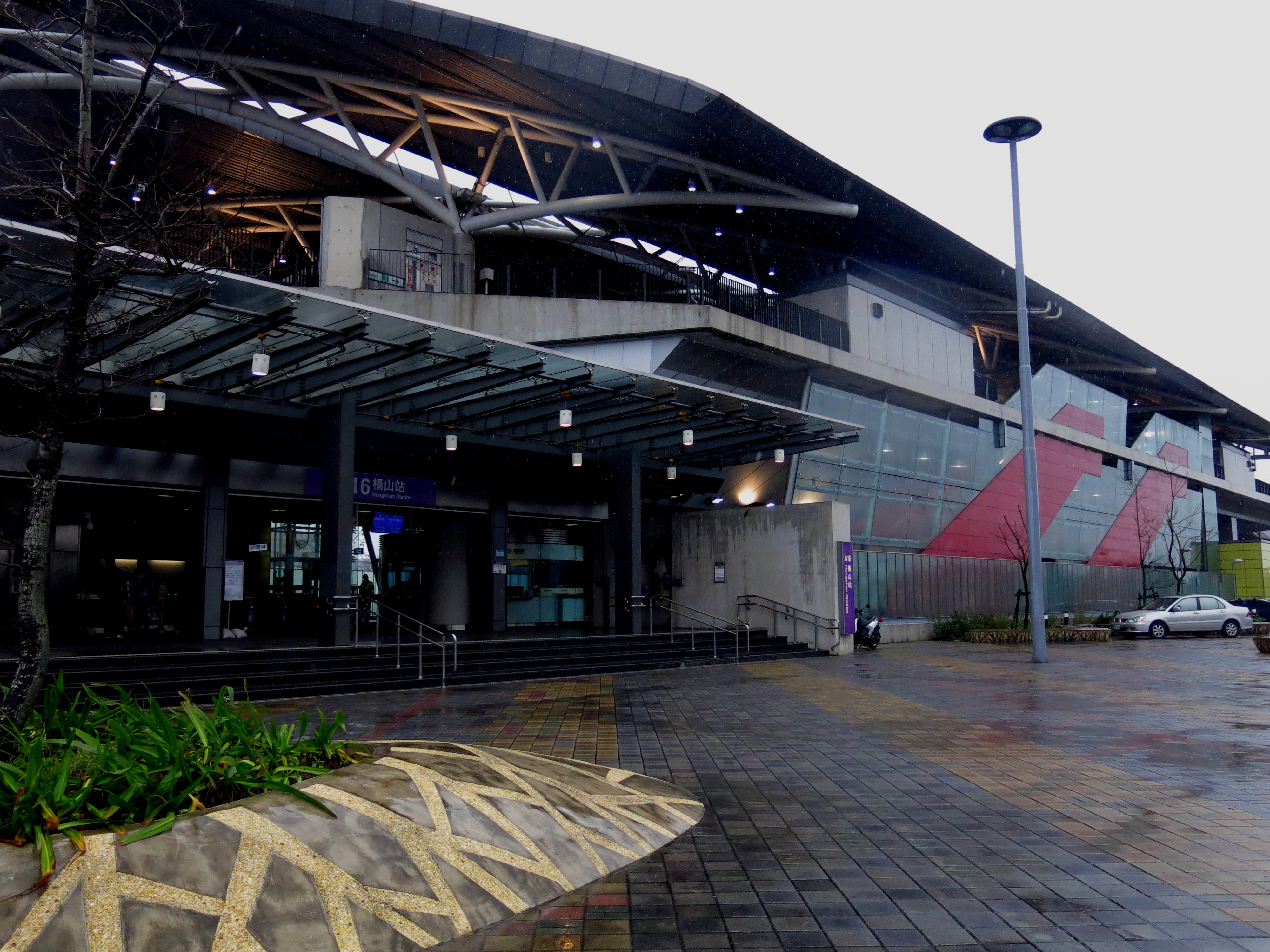 Taoyuan Metro A16 Hengshan Station